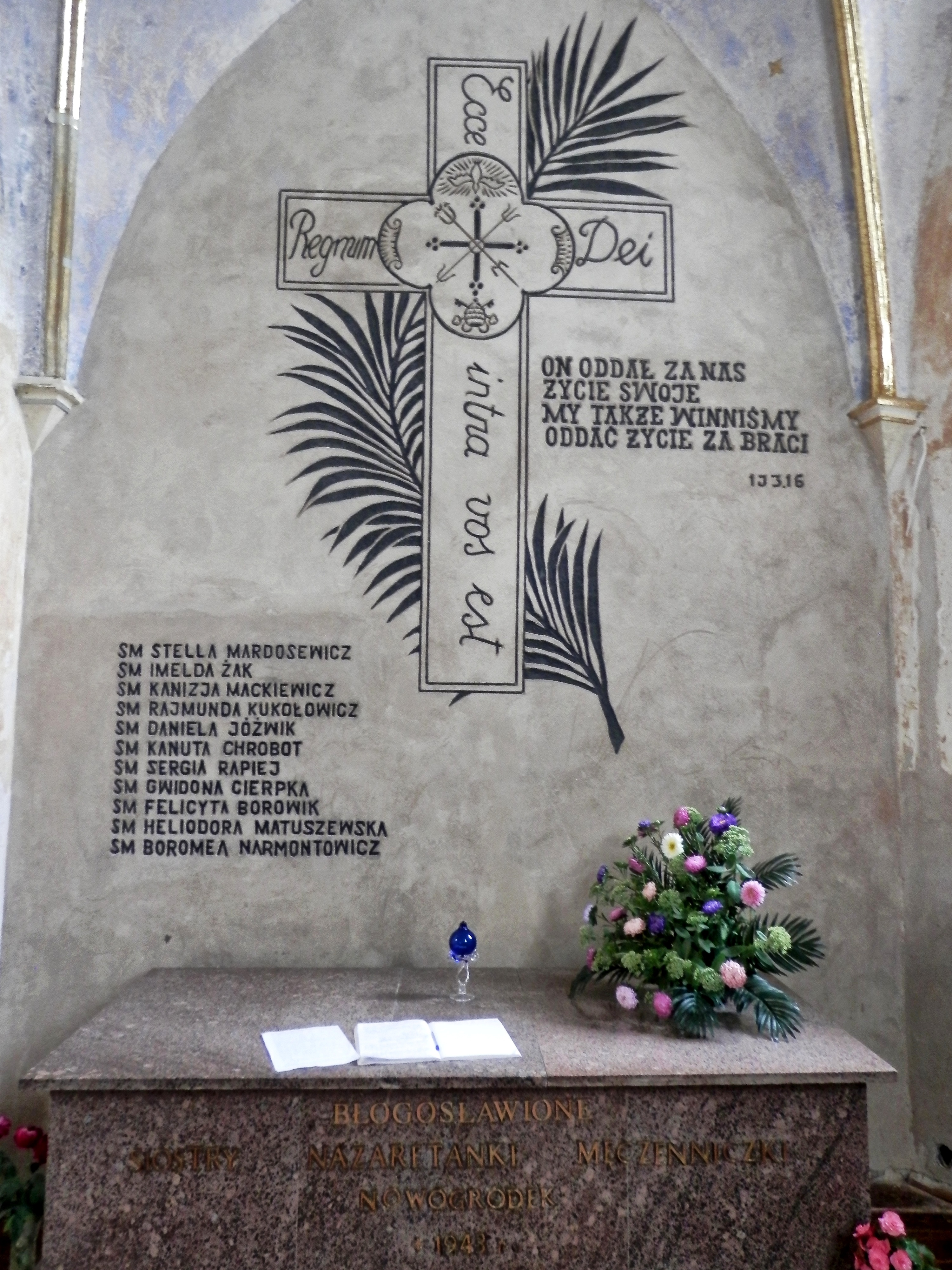 Transfiguration Roman Catholic Church in Navahrudak (XVIII century)